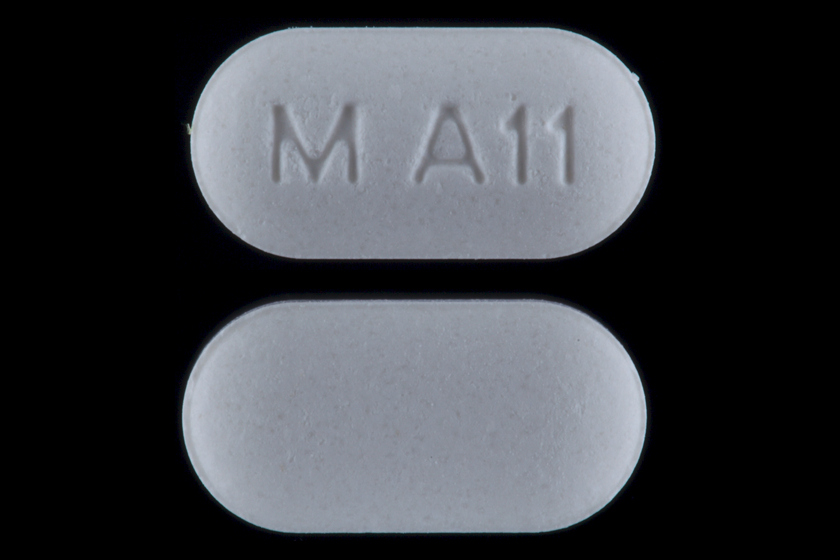 Drug Name: Alendronic acid 35 MG (as alendronate sodium 45.7 MG) Oral Tablet Ingredient(s): Alendronic acid Drug *Label Imprint: M;A11 Color(s): White Shape: Oval Size (mm): 10.00 Score: 1 Inactive Ingredient(s): ShowHide silicon dioxide / crospovidone / magnesium stearat... silicon dioxide / crospovidone / magnesium stearate / mannitol / cellulose, microcrystalline / sodium lauryl sulfate Drug Label Author: Mylan Pharmaceuticals Inc. DEA Schedule: Non-scheduled